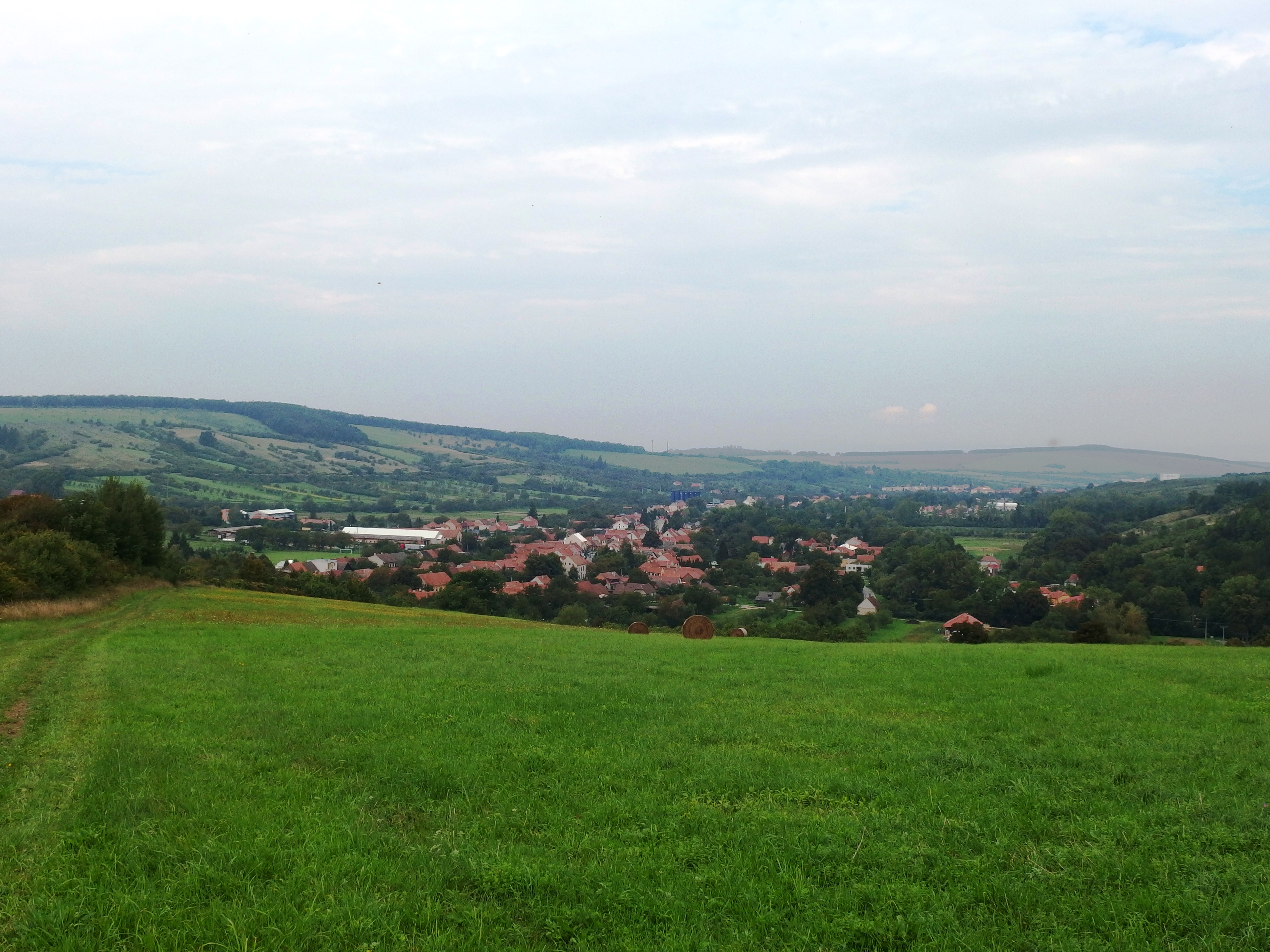 Javorník, Hodonín District, Czech Republic.